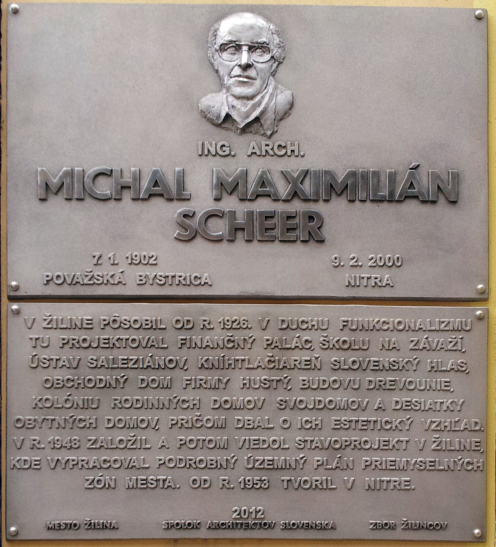 Memorial table of Michal Maximilián Scheer (architect) in Národná street in Žilina, Slovakia